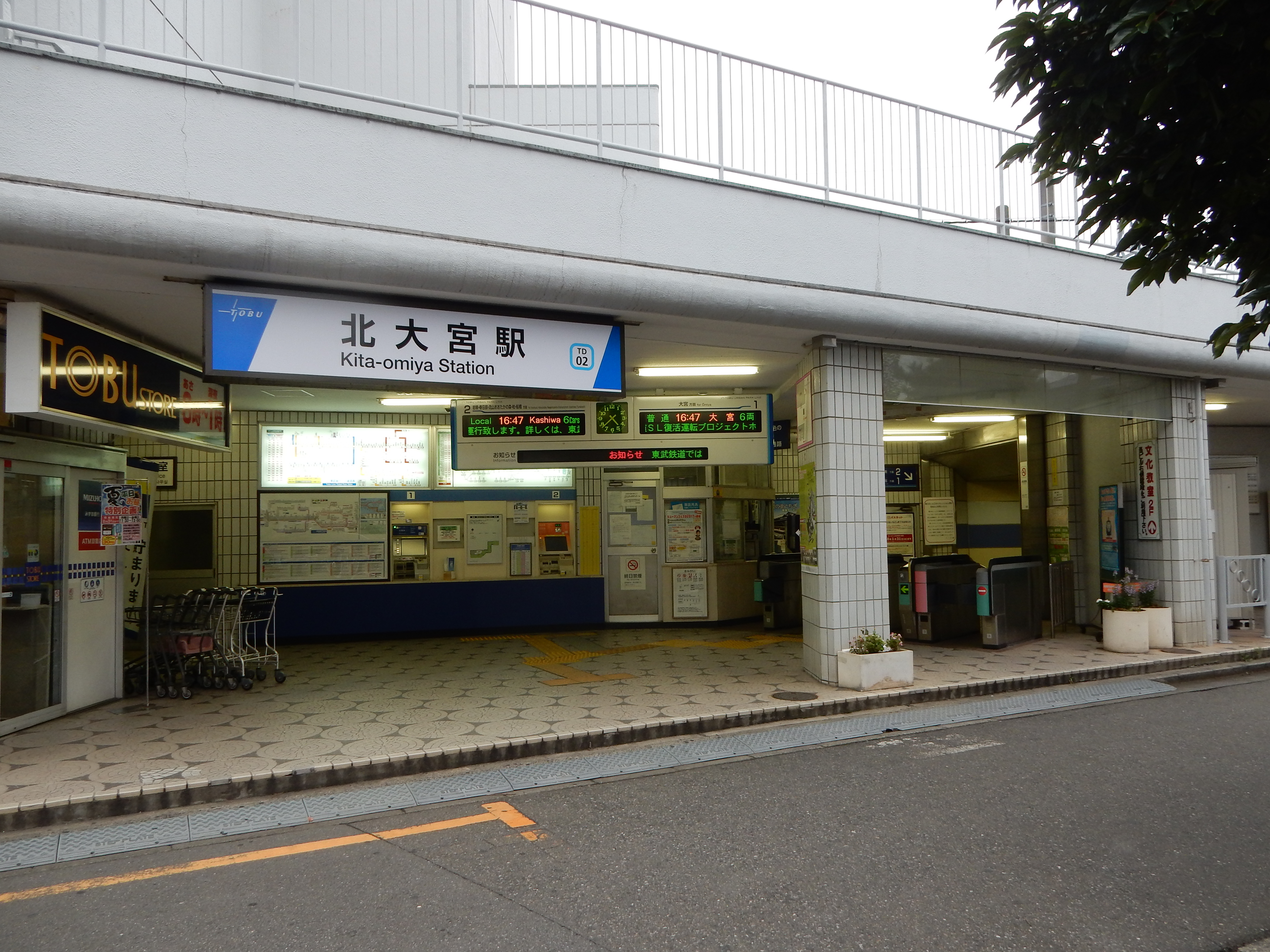 Kita-Ōmiya Station, located at 3-285 Dote-cho, Omiya-ku, Saitama, Saitama Prefecture, Japan